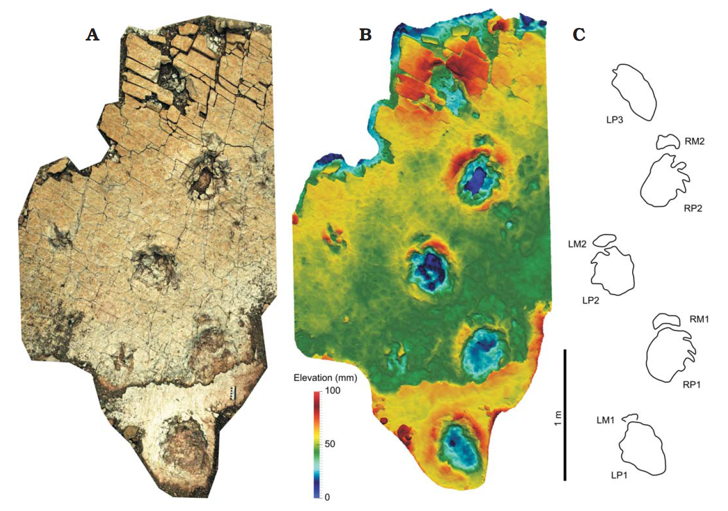 Original figure caption: Trackway S1 (Eosauropus sp.), here attributed to a sauropod trackmaker based on pedal synapomorphies; trackmaker is moving towards the south-west. Two consequtive pes impressions of a tridactyl Grallator [i.e. a theropod] trackway can be seen left to the S1 trackway. Note: The tracks are preserved on a bedding plane of a thin siltstone bed of the Late Triassic Fleming Fjord Formation of East Greenland. A) shows a photograph of the trackway(s) as preserved on the bedding plane (i.e. as concave epireliefs); B) shows a color shaded relief map based on a high-resolution photogrammetric 3D-model of the bedding plane; C) is an interpretative outline drawing of the S1 trackway; abbreviations: LM = left manus (i.e. forefoot), LP = left pes (i.e. hindfoot), RM = right manus, RP = right pes, numbers increase in walking direction.